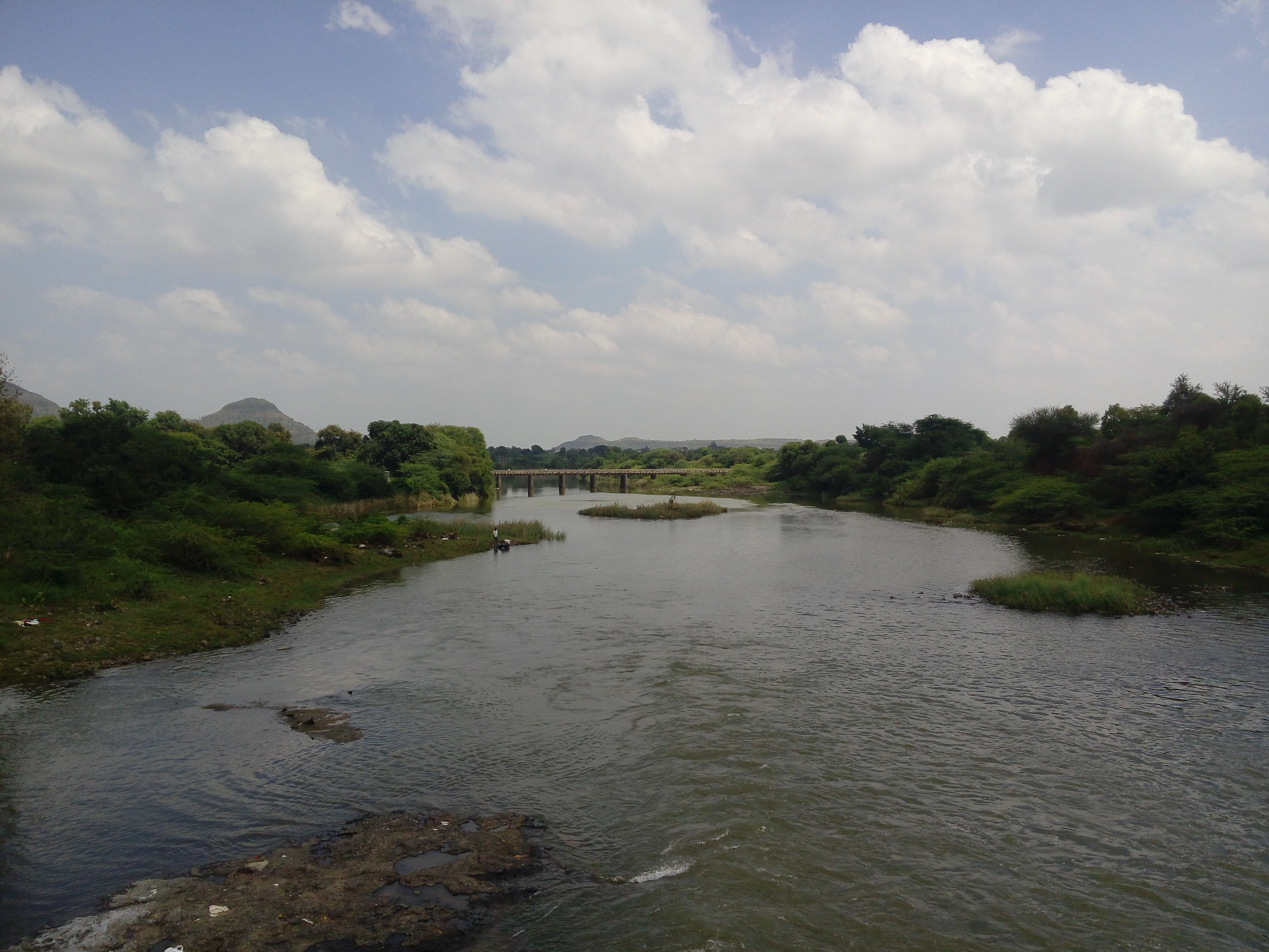 This image is taken from Chandoli Budruk Dam.